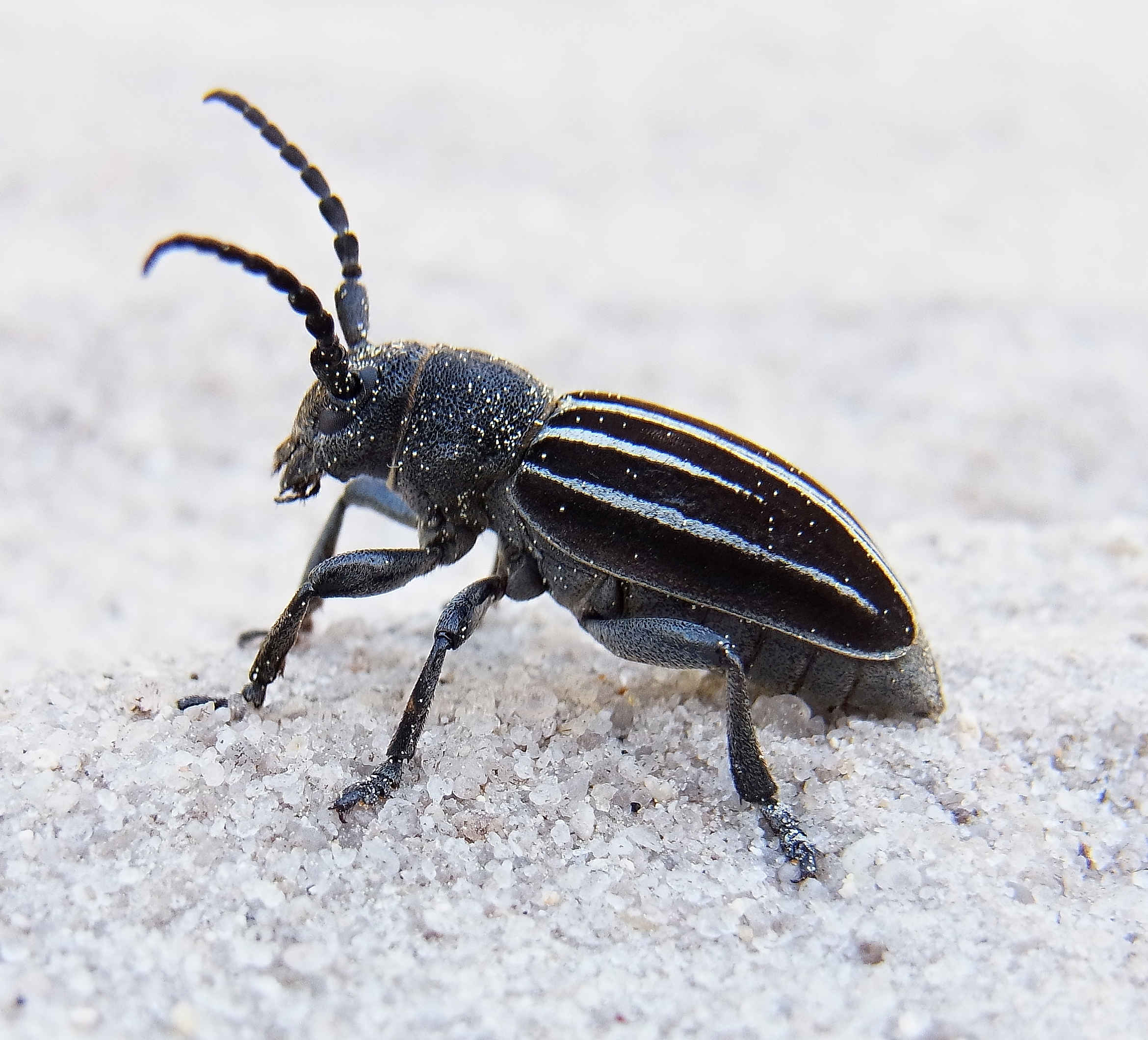 Iberodorcadion fuliginator from France, Bedenac, Charente-Maritime, at 2013-04-25 on forestpath